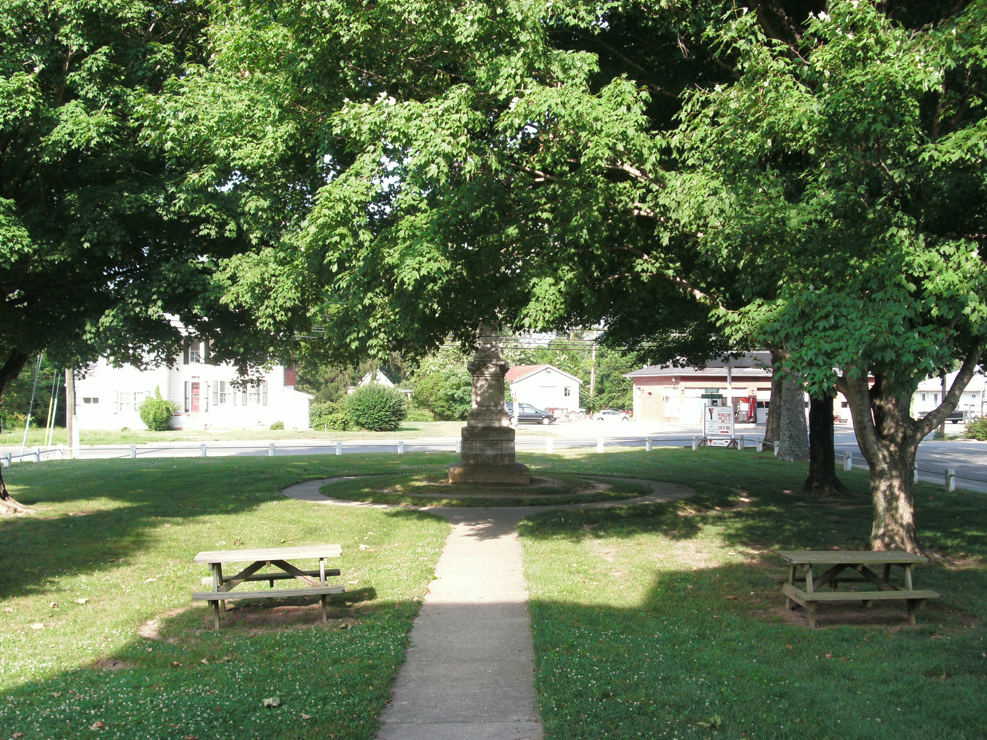 Heathsville Historic District, US 360 at jct. with VA 634 and VA 201 Heathsville